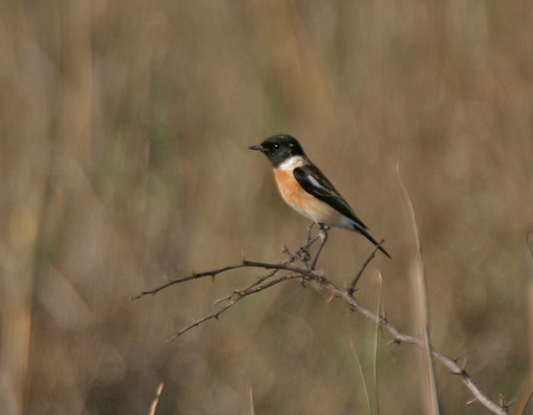 Siberian Stonechat Saxicola maurus at Keoladeo National Park, Bharatpur, Rajasthan, India.